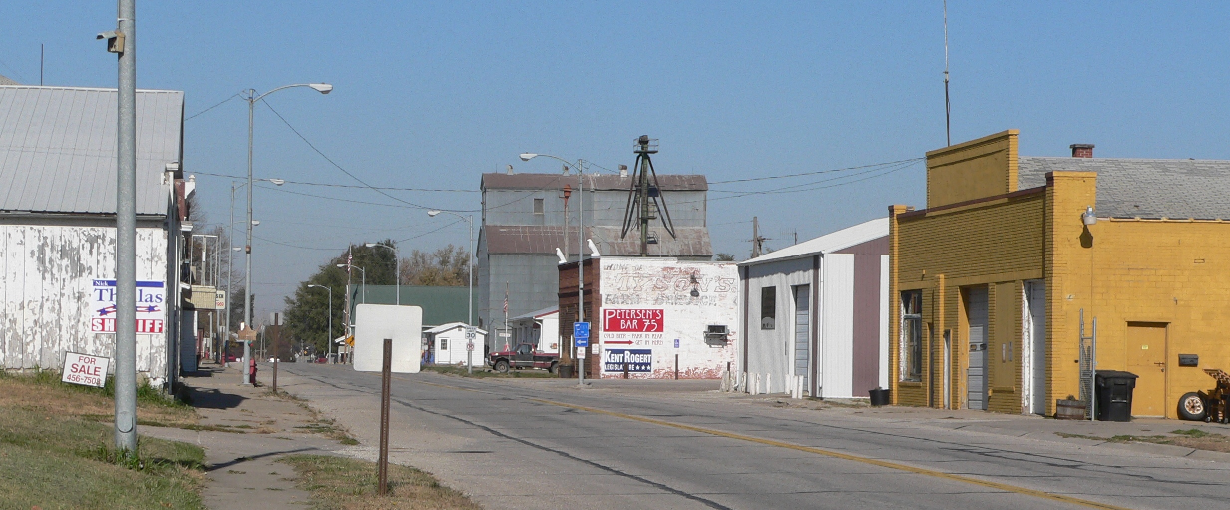 Downtown Herman, Nebraska: Main Street (U.S. Highway 75), looking northwest from about 3rd Street. US75 runs northwest-southeast through Herman; the city's grid is aligned with the highway rather than the cardinal directions.